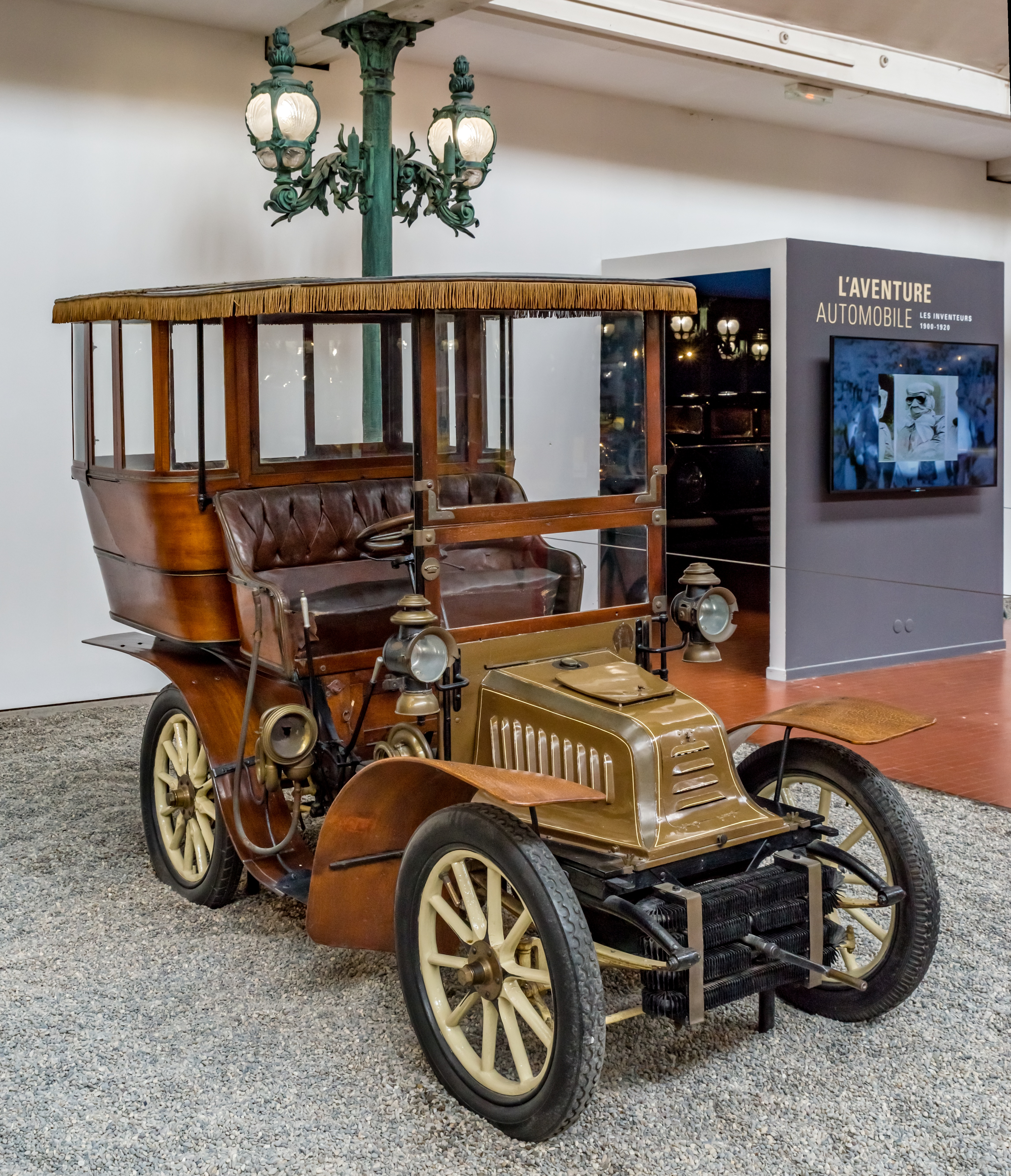 pictures from the Cité de l’Automobile – Musée National – Collection Schlump in Mulhouse, France ptictures from the 10. may 2018